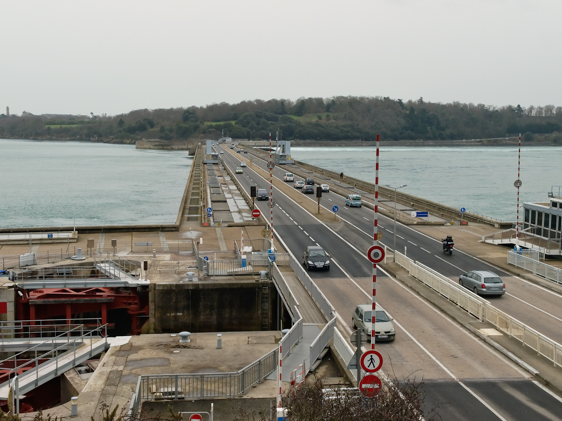 Rance tidal power station, near Saint-Malo, in France